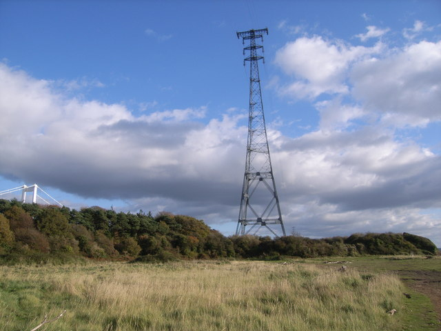 Beachley Point Pylon - the western end of the Severn Powerline Crossing